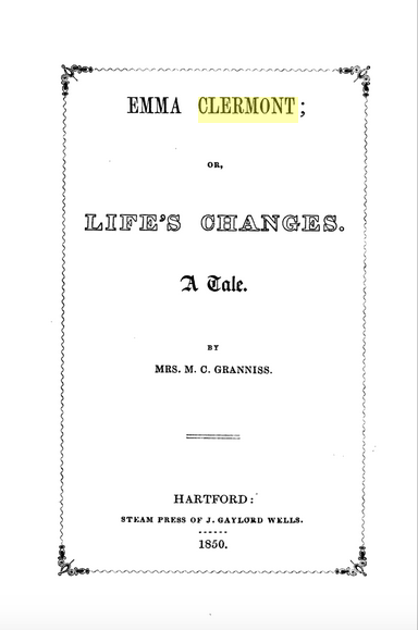 Emma Clermont: Or, Life's Changes. A Tale, By Mrs. M. C. Granniss